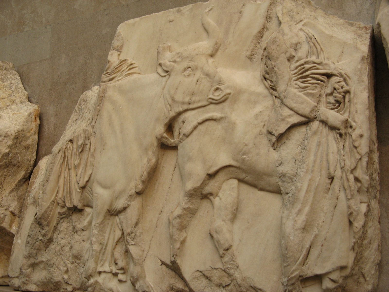 Procession of sacrificial bulls; Parthenon, South Frieze, XLVII, 145-149; ca. 447–433 BC.